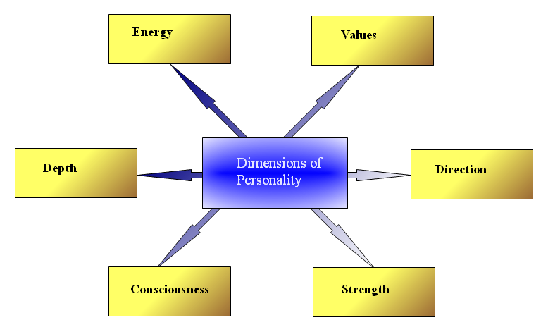 According to a 2012 study conducted by psychology professor Richard Petty, PhD at the Ohio State University, the way people tag their thoughts ( as valuable or trash ) can make a difference in the way these thoughts are being used. If you want to see how to eliminate negativity thinking using this innovative method, all you have to do is to objectify the negative thoughts using either a text document or a piece of paper and then tossing or dragging it into the trash can. Simply visualizing or imagining the process of throwing them away has no effect; you have you physically toss them in the trash..